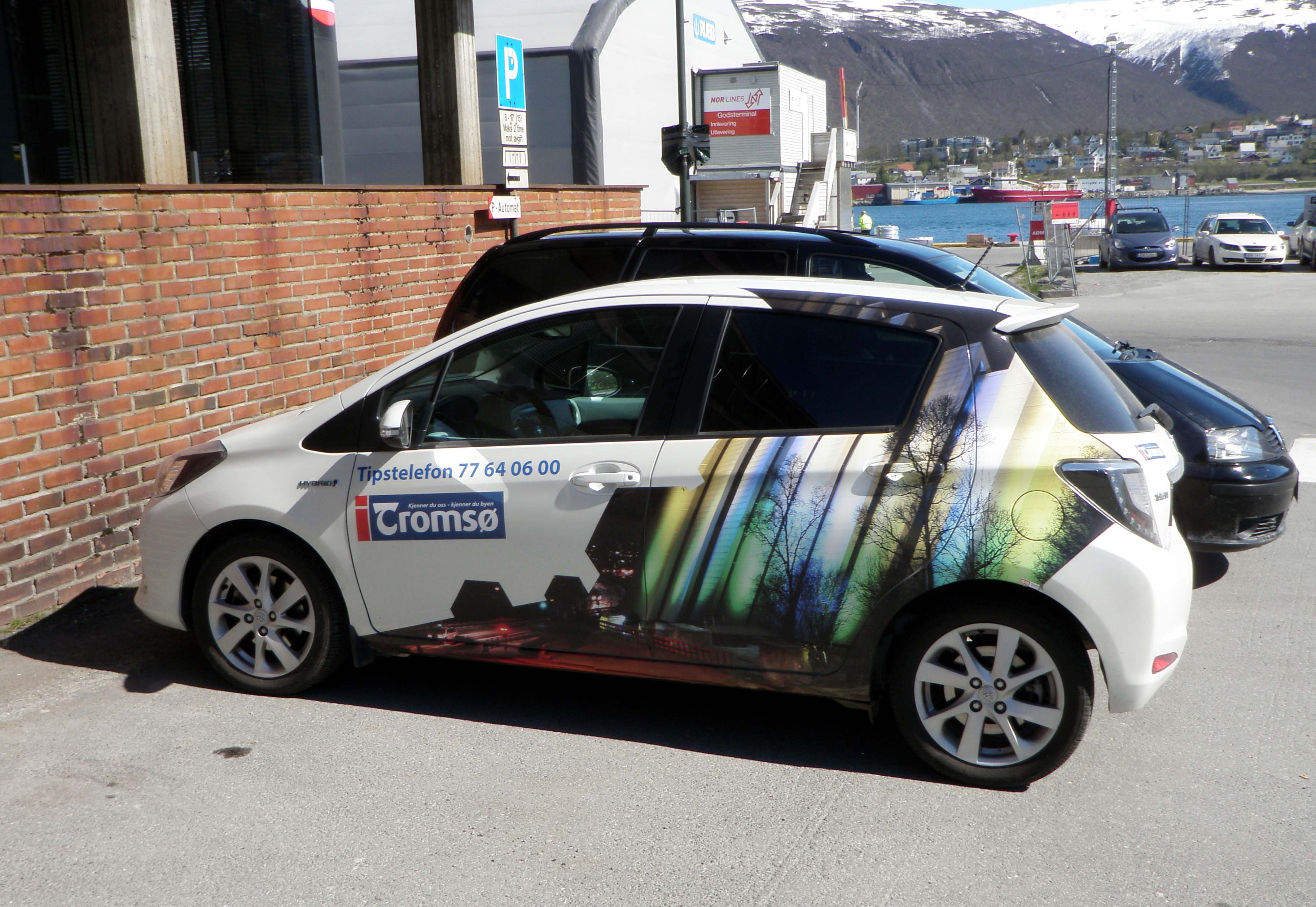 Automobile belonging to the newspaper Bladet Tromsø in Tromsø, Troms, Norway.